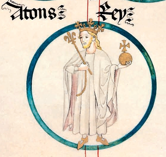 Alphonse II of Aragon